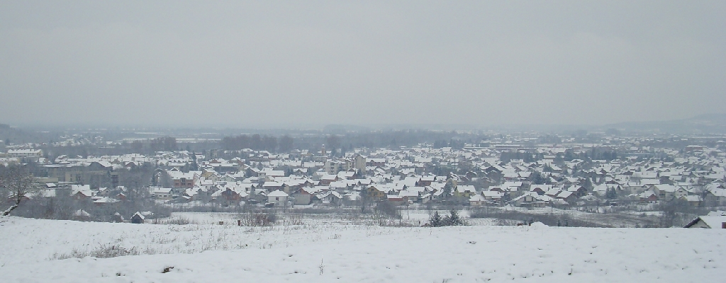 View of Dubica with Krivdica Hills, December 2007